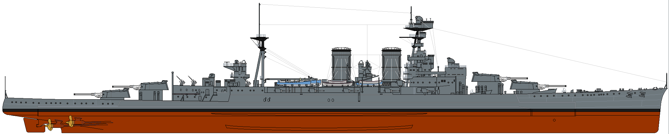 HMS Hood, Royal Navy battlecruiser, as she was in 1921. 1/450 scale.